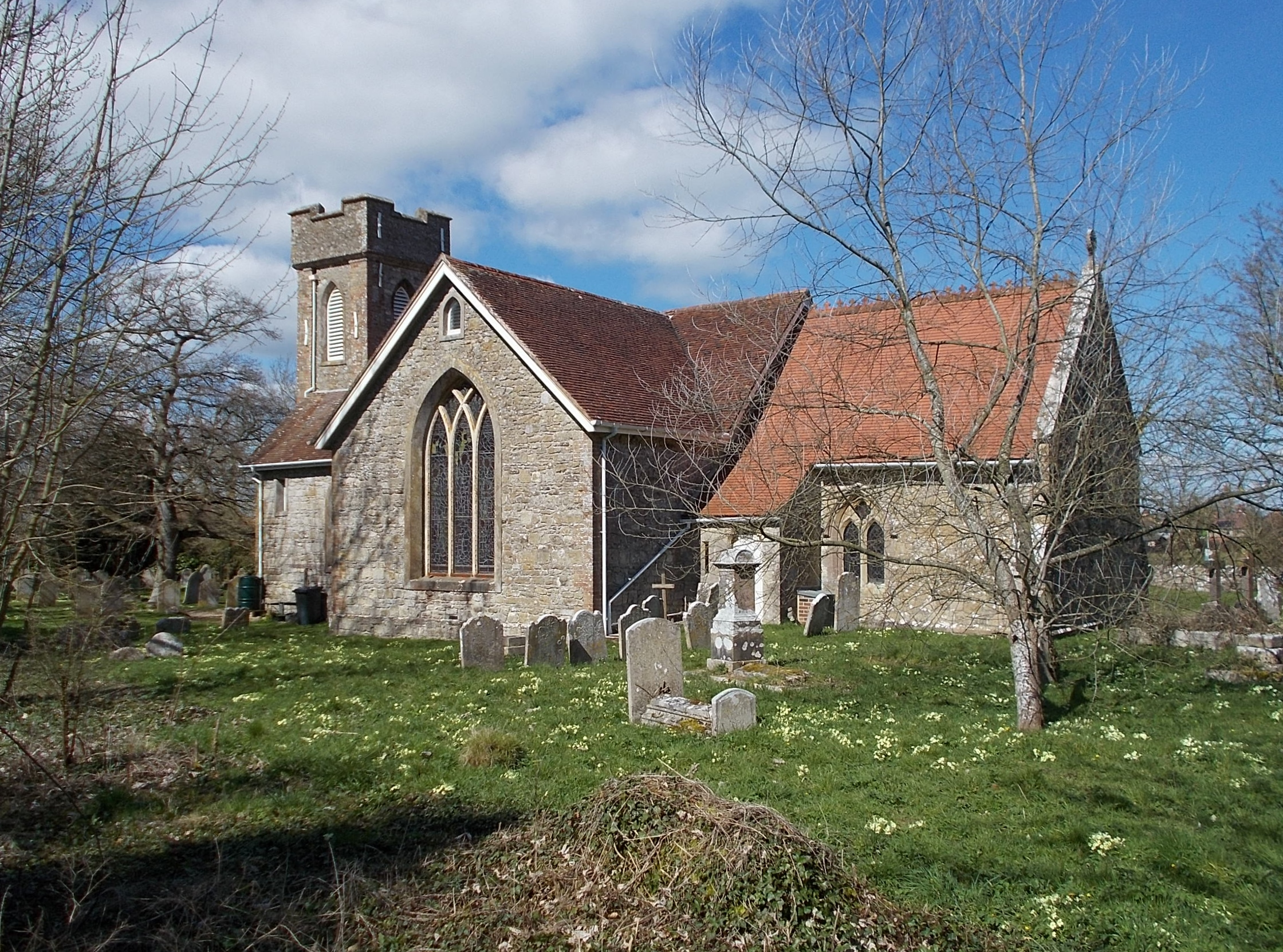 St Helens New Church, Isle of Wight, UK